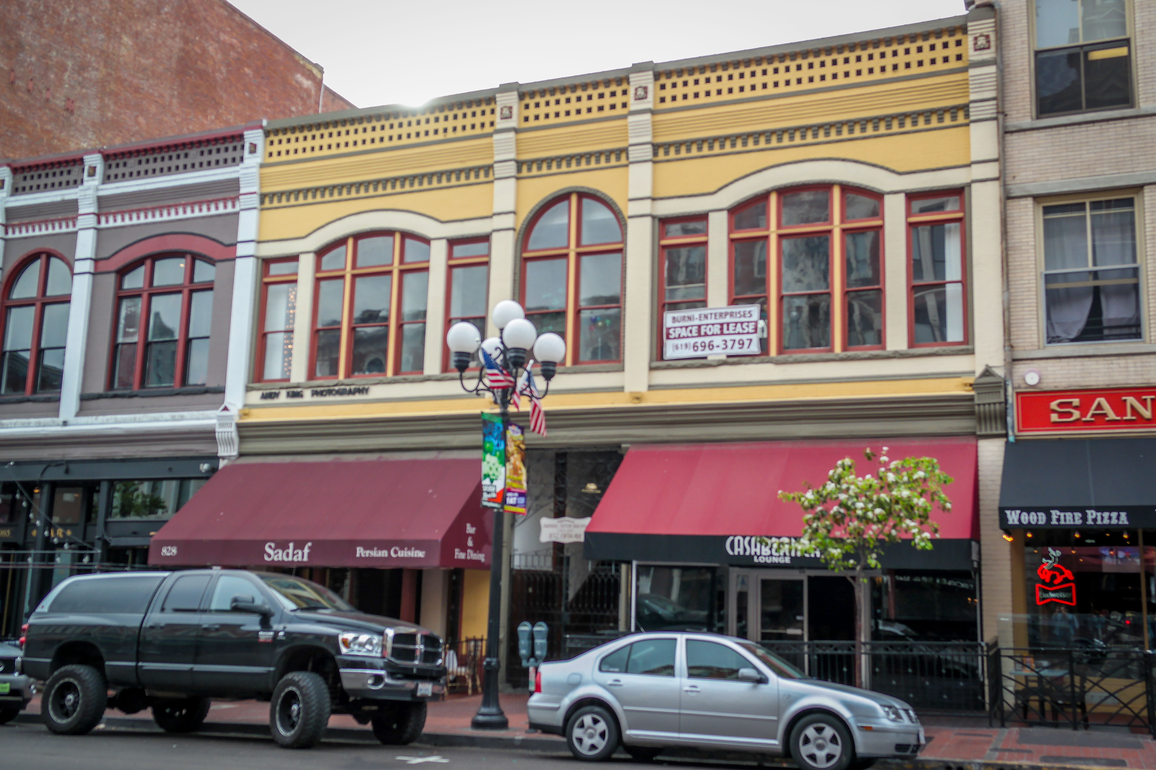 Nearly identical to the Mercantile Building next door.